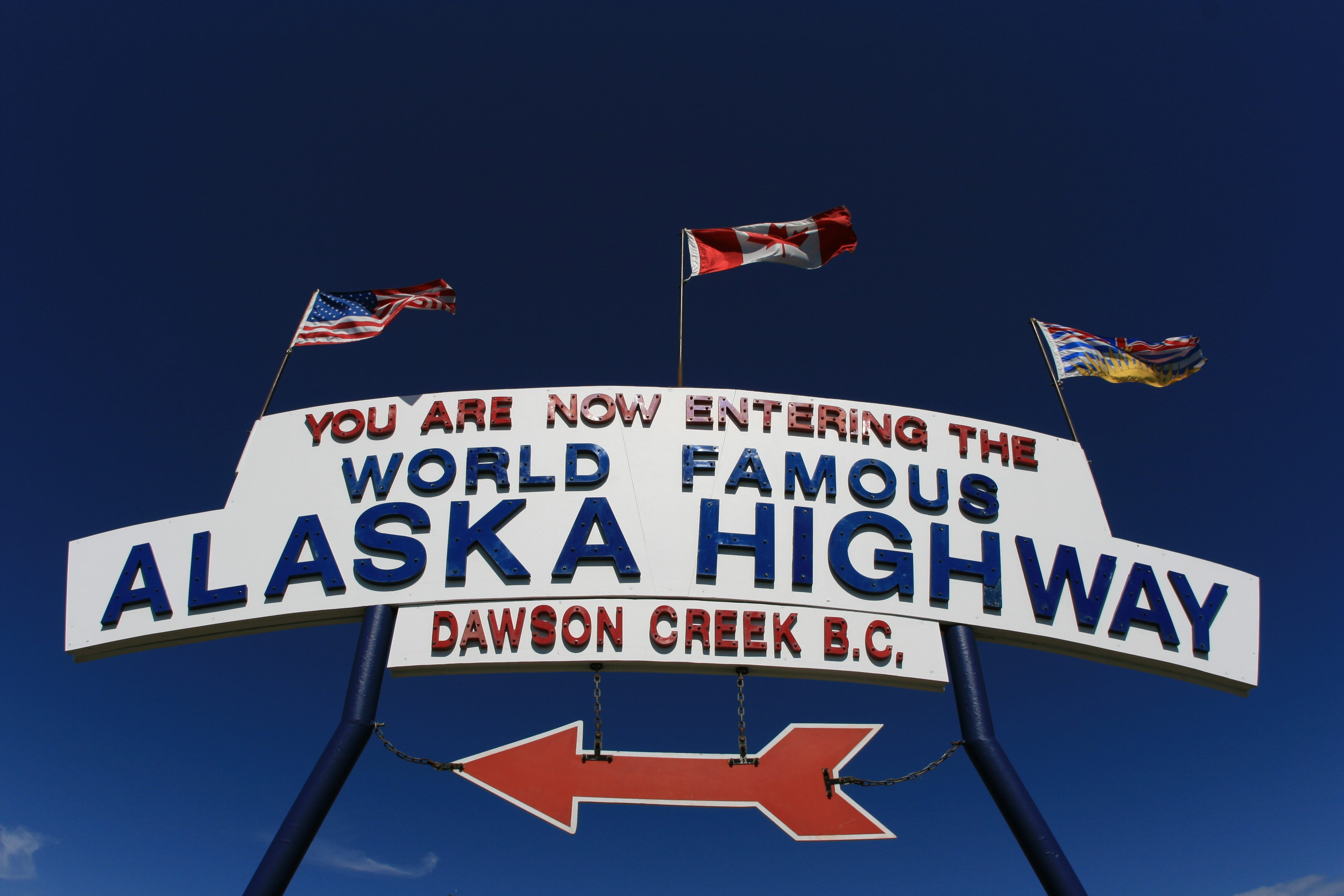 Photograph of sign along Alaska Highway in Dawson Creek, British Columbia Canada